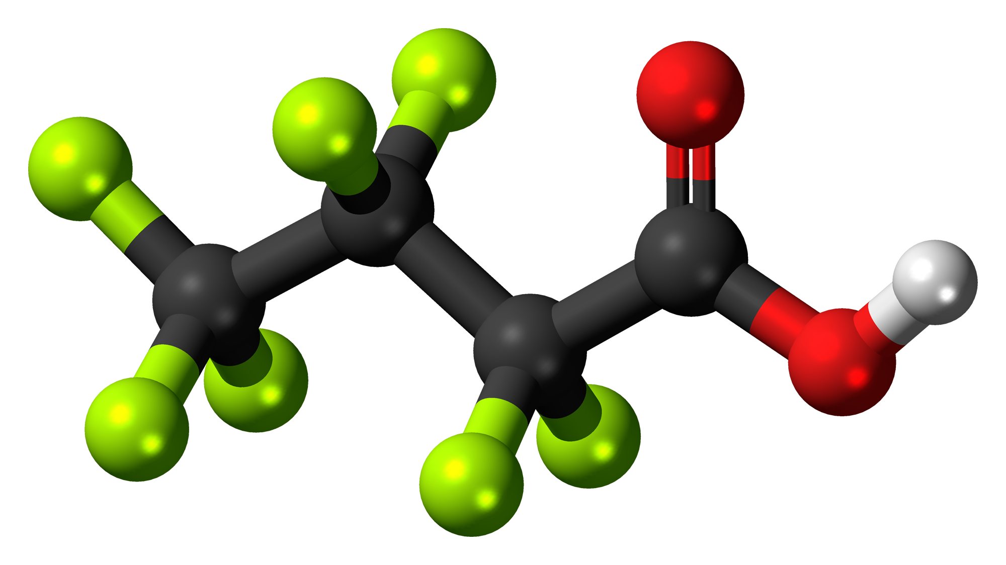 Ball-and-stick model of the perfluorobutyric acid molecule, a perfluorinated carboxylic acid. Colour code: Carbon, C: black Hydrogen, H: white Oxygen, O: red Yellow-green: Fluorine, F